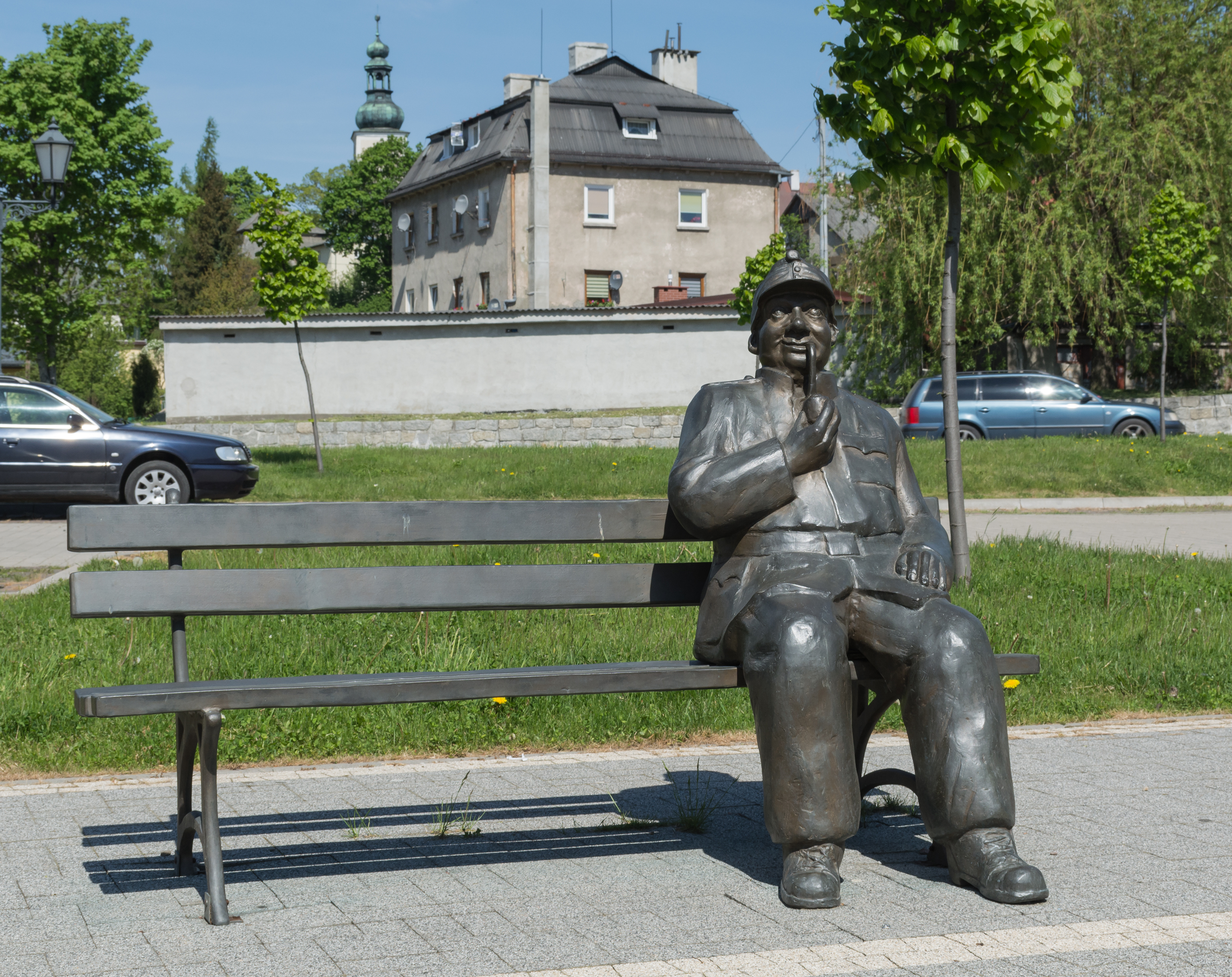 Monument to Josef Švejk sitting on a bench, Szczytna, Poland (created in 2010 by Adam Przybysz)